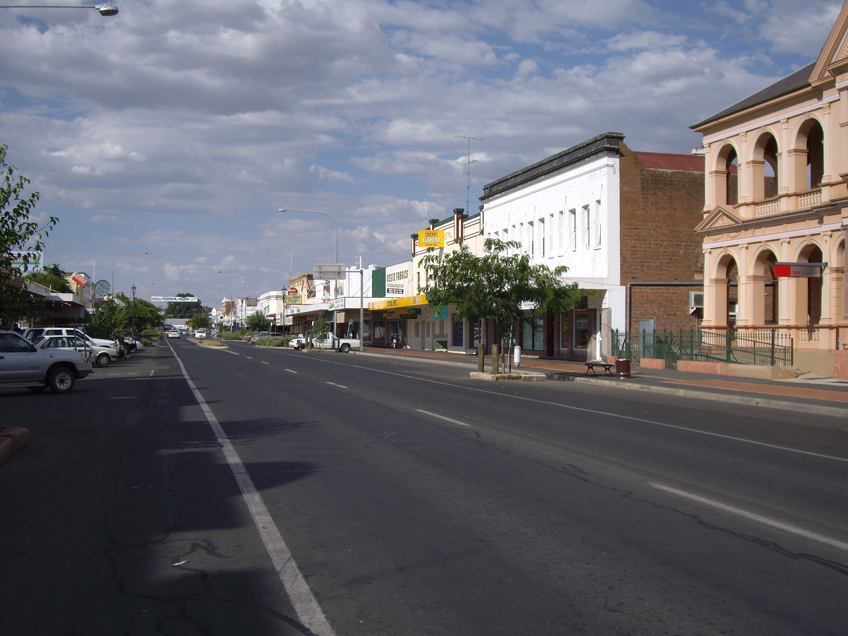 Main Street, Cootamundra